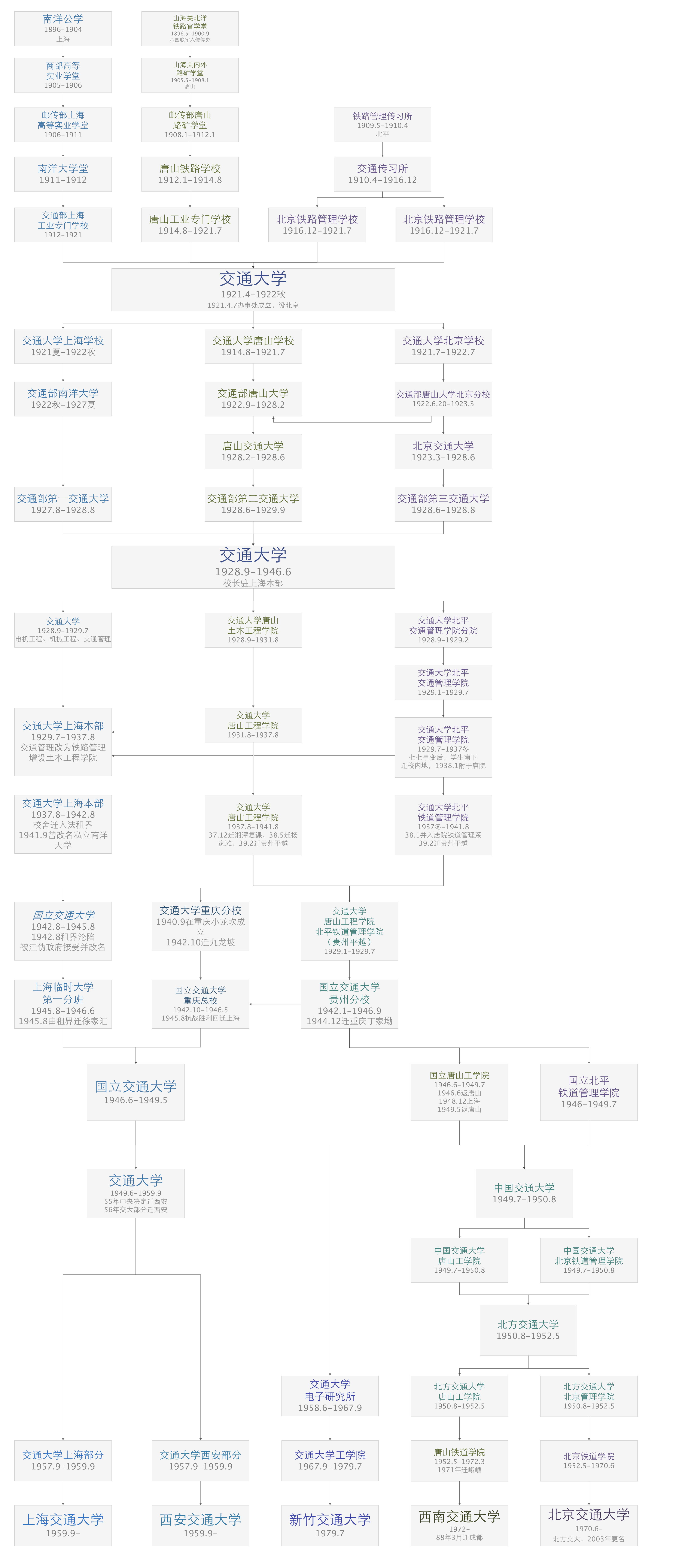 History of Jiaotong University (Shanghai, Xi'an, Chengdu, Beijing, Hsinchu).